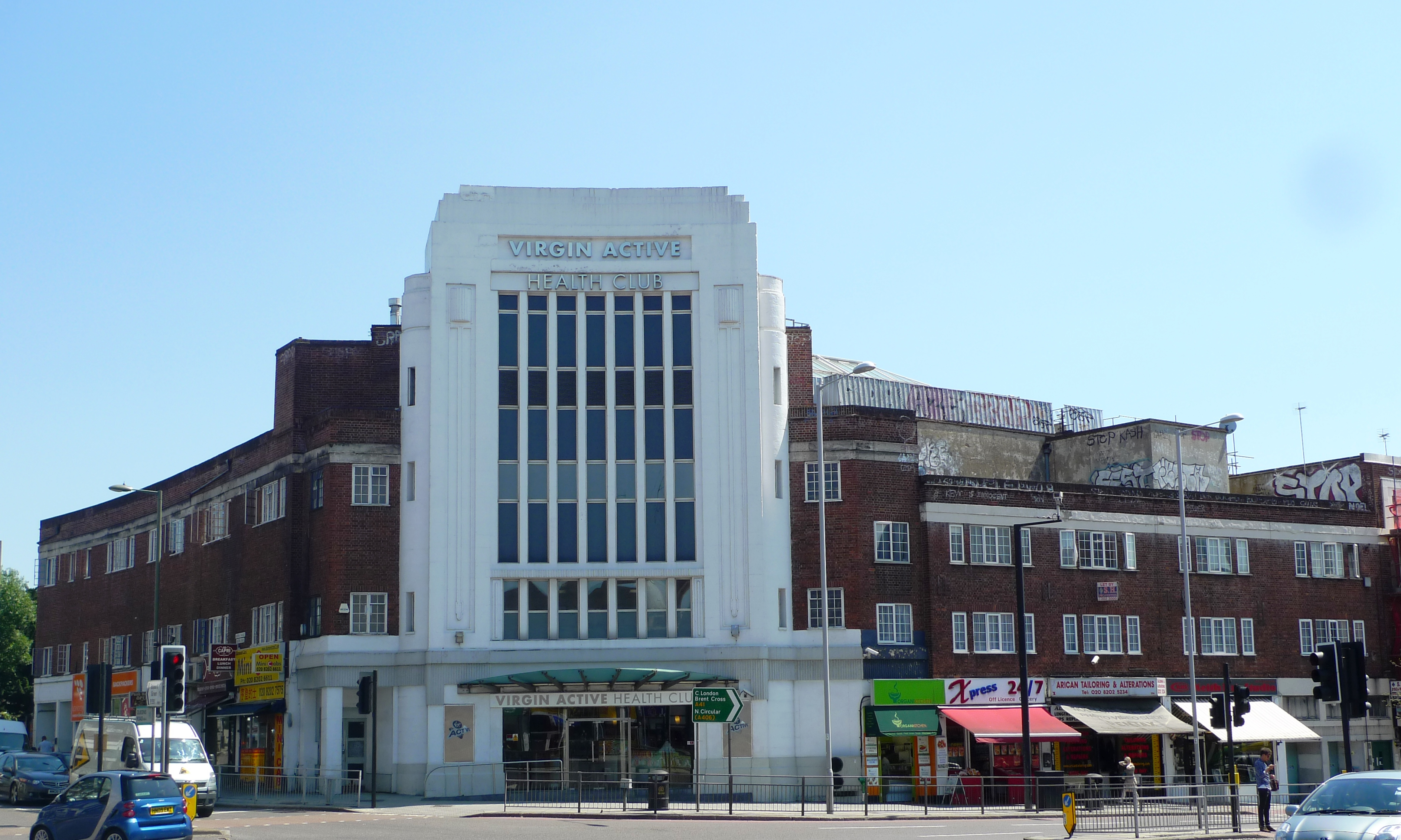 A former cinema, now a gym. It closed as a cinema in 1997. Address: 260 Hendon Way. Former Name(s): MGM Cinema; Cannon; Classic; Gaumont; The Ambassador. Links: Cinema Treasures